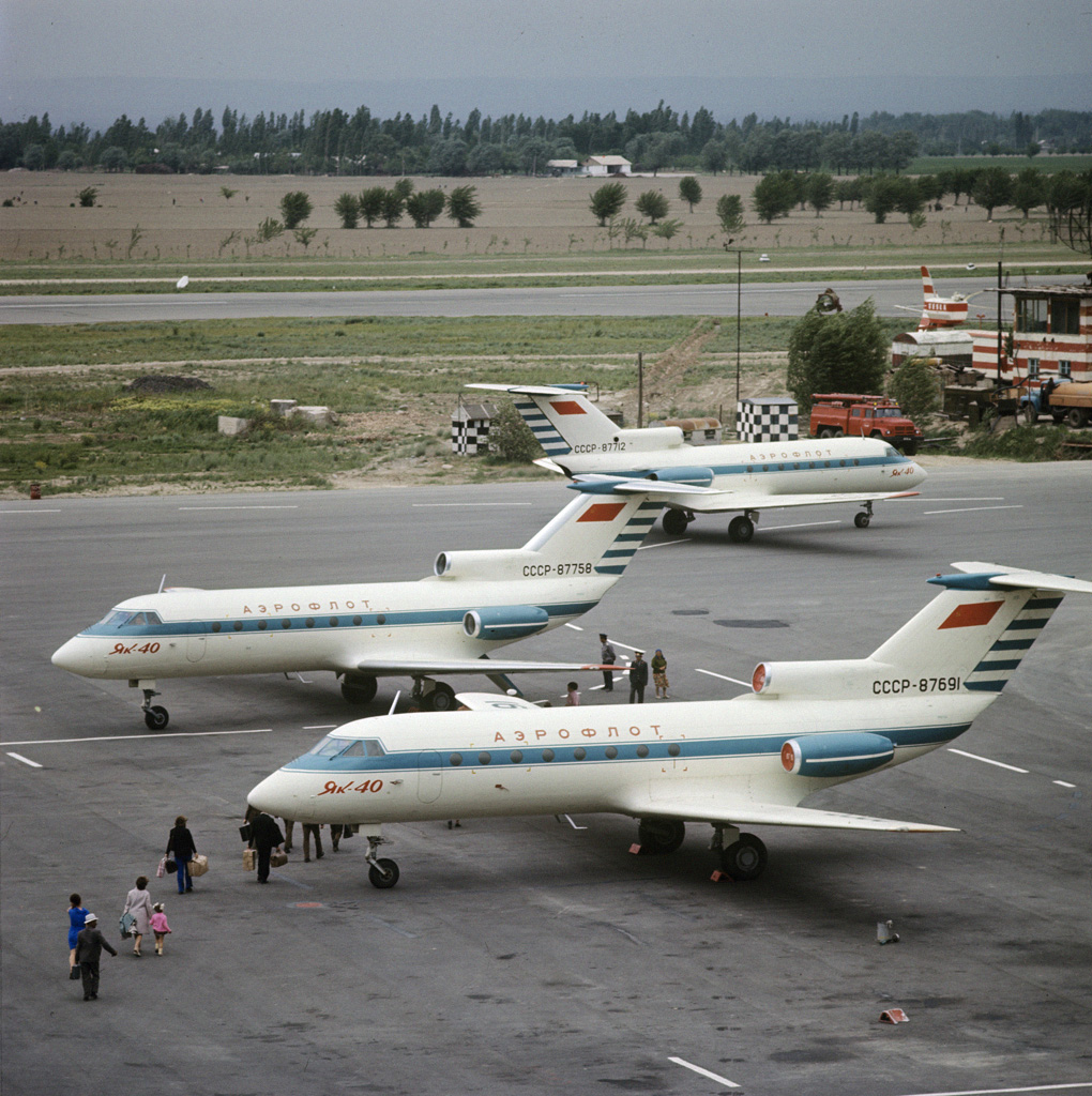 “Osh Airport”. Osh Airport.